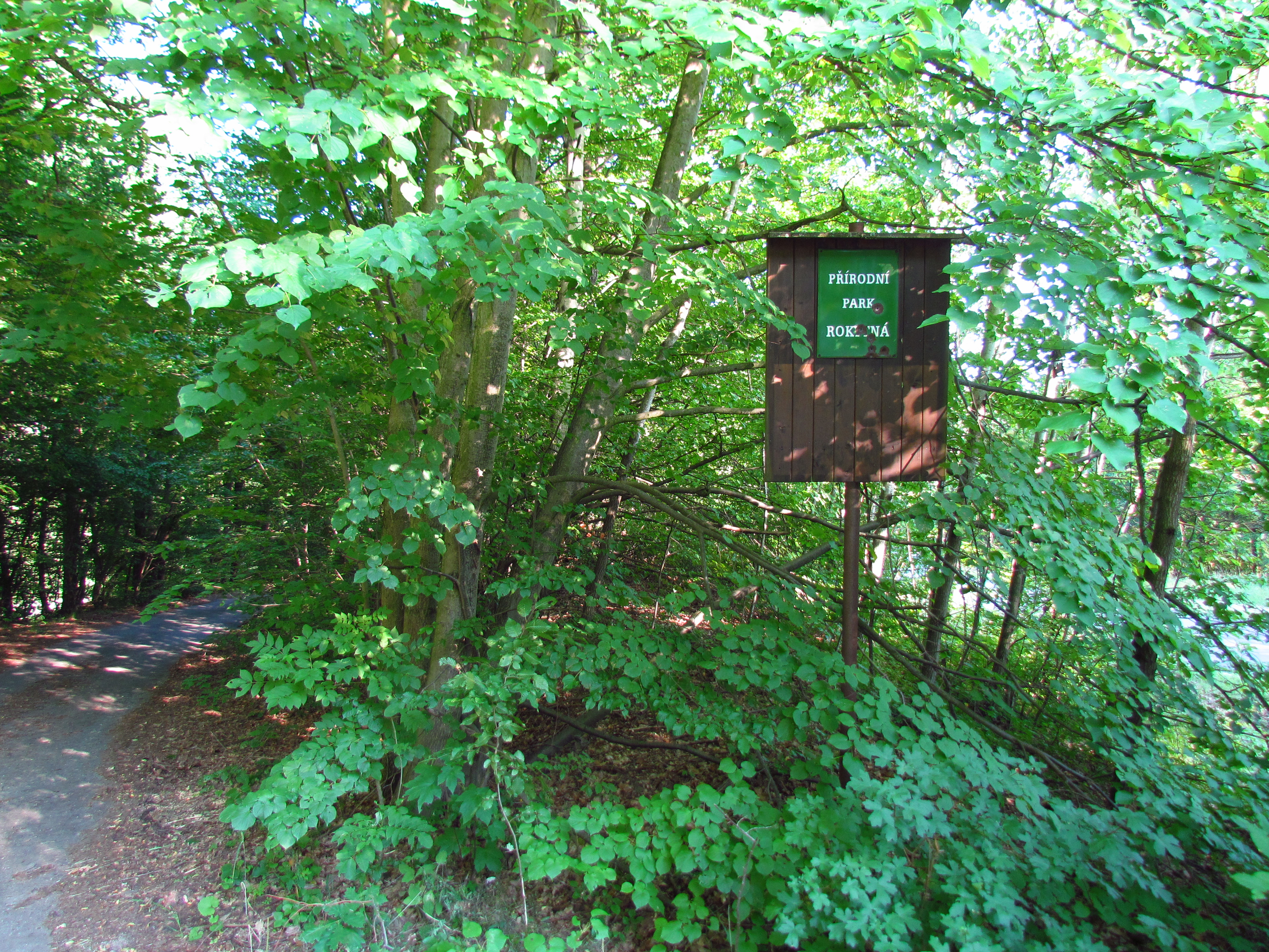 Nature park Rokytná with sign near Tavíkovice, Znojmo District.